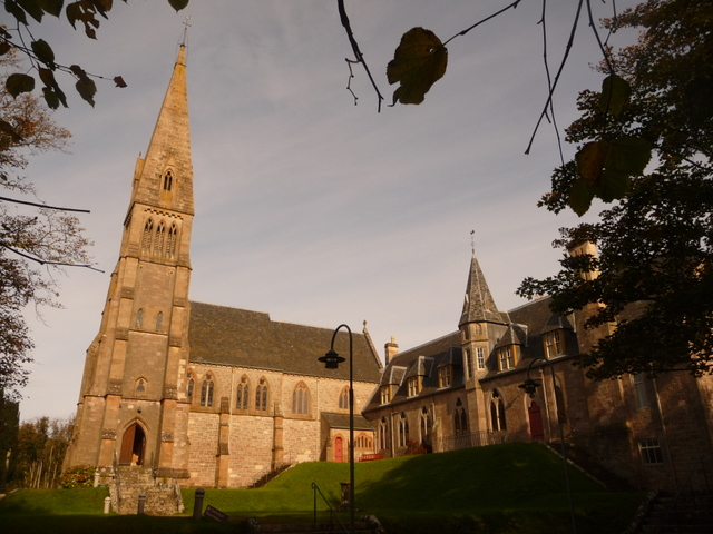 Millport: cathedral church of the Holy Spirit Dating from 1857, the cathedral comprises two residential buildings (known as 'colleges'; one right, the other behind the main church building) and the church itself. It was consecrated the Cathedral of the Isles in 1876. It is barely visible from any of the surrounding areas, being set in a small woodland – apart from the top of the spire, peeking out above the treetops.